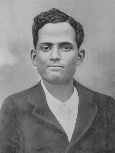 Jatindra Nath Das